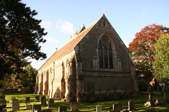 St.Hilary's church, Spridlington, Lincs. One of James Fowler's many churches in the area, rather grand for such a small village, it was built in 1875 to replace a smaller Georgian one.